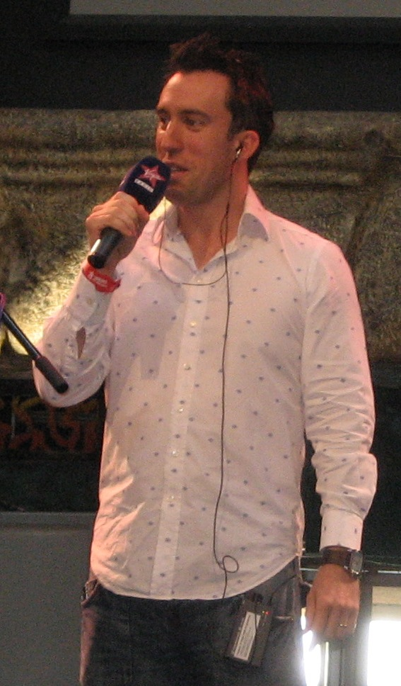 English Absolute Radio DJ Christian O'Connell